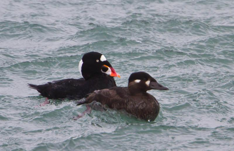 Surf Scoter (Melanitta perspicillata) - male (left) and female (right)